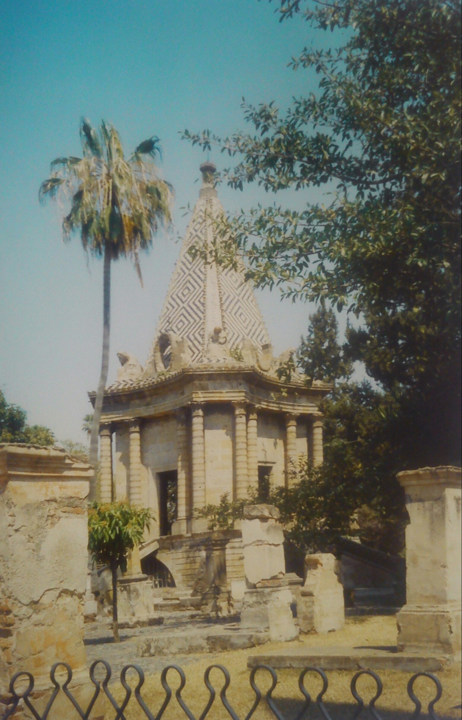 Egyptian Chapel in the Belen Cemetery (Panteón de Belén), en Guadalajara